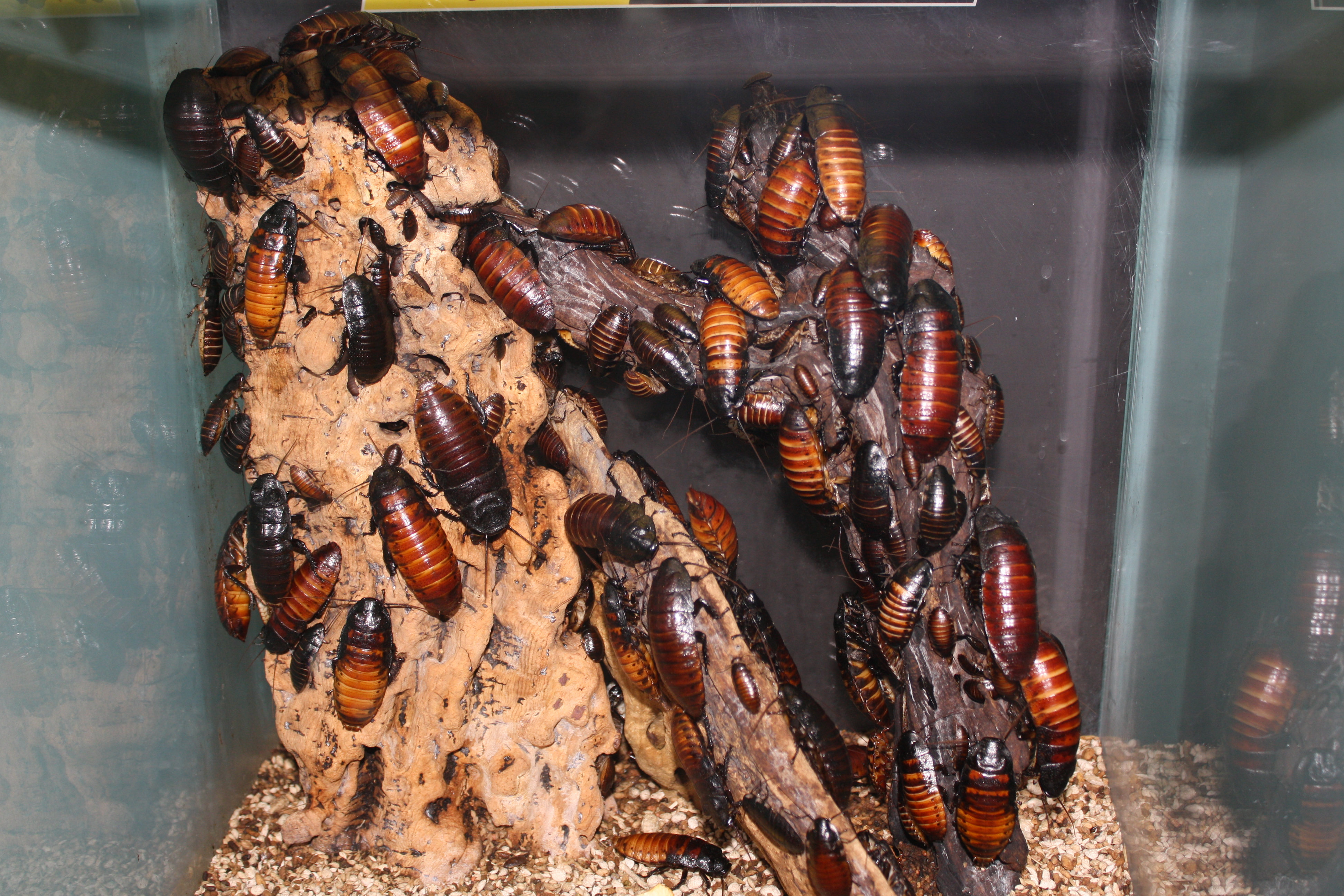 Hissing Cockroaches (Gromphadorina portenosa) Wikipedia Loves Art at the Houston Museum of Natural Science This photo of item # [1] at the Houston Museum of Natural Science was contributed under the team name "The_Wookies" as part of the Wikipedia Loves Art project in February 2009. Houston Museum of Natural Science The original photograph on Flickr was taken by andytang20—please add a comment to the original Flickr page whenever a use has been made on Wikipedia or another project. Project galleries on Flickr: this institution, this team